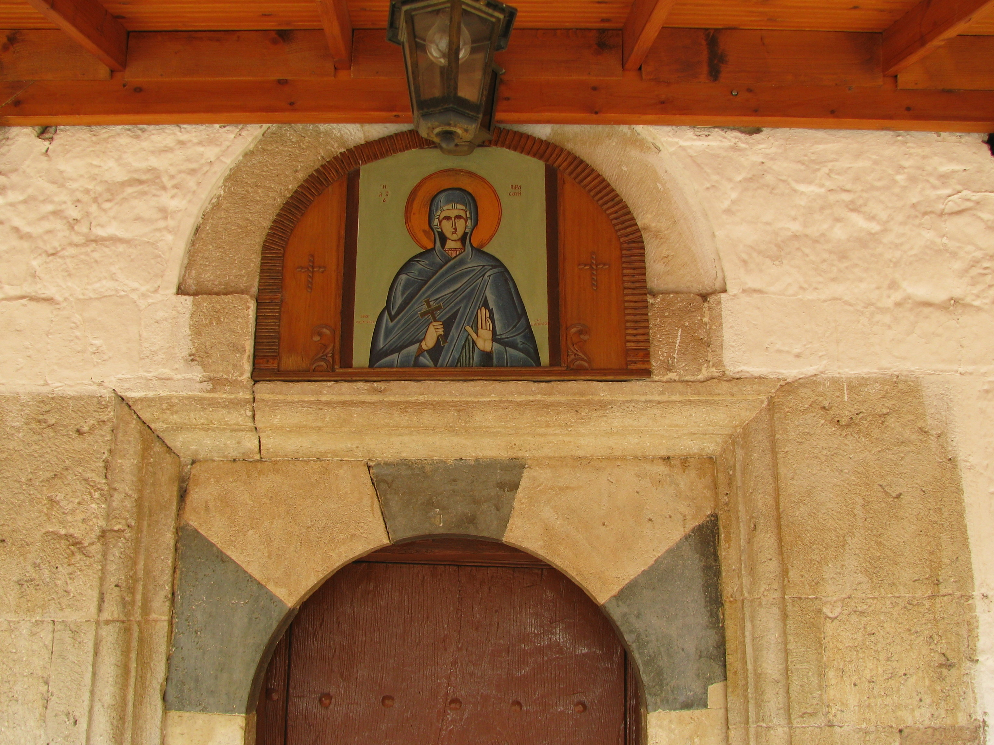 Old church of Paleos Milotapos, Giannitsa prefecture, Greece